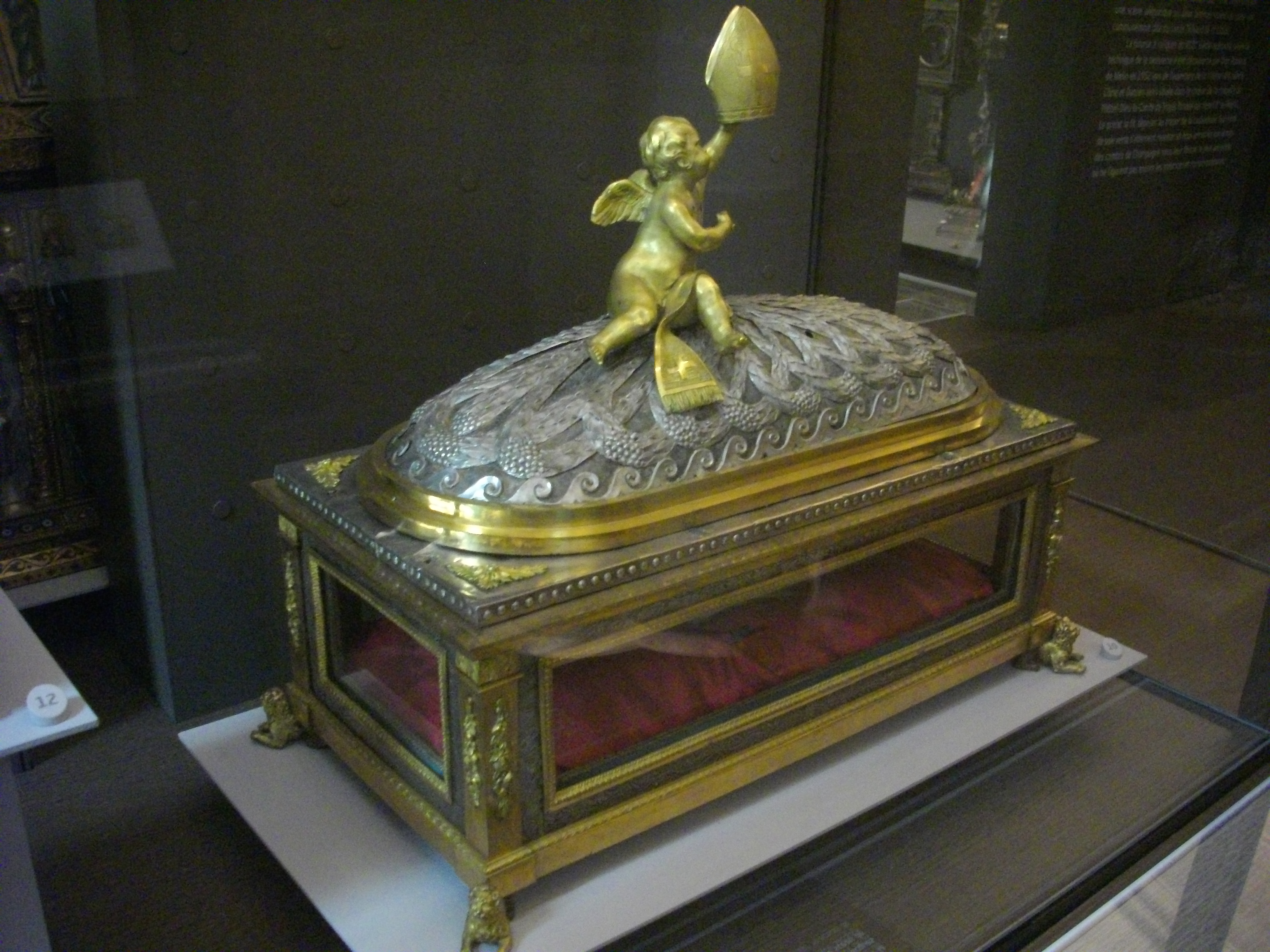 Treasure of Saints Peter and Paul cathedral of Troyes (Aube, France) : reliquary of saint Lupus .